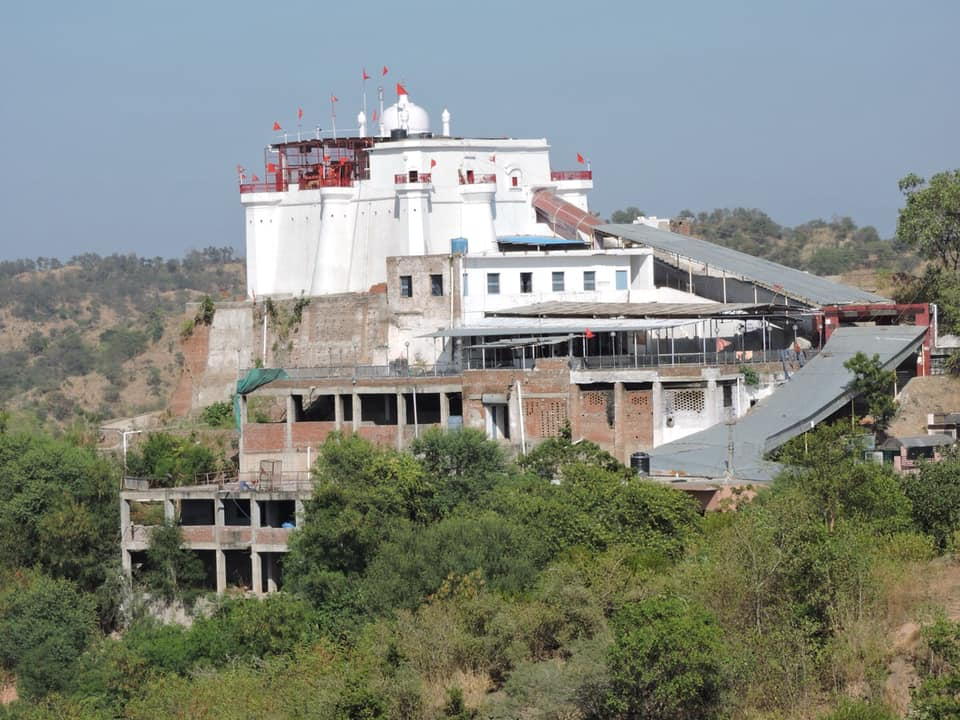 Jayanti Majri village hillock is famous for Jayanti Devi Temple located here . It is 15 km from Chandigarh in mohali district of Punjab